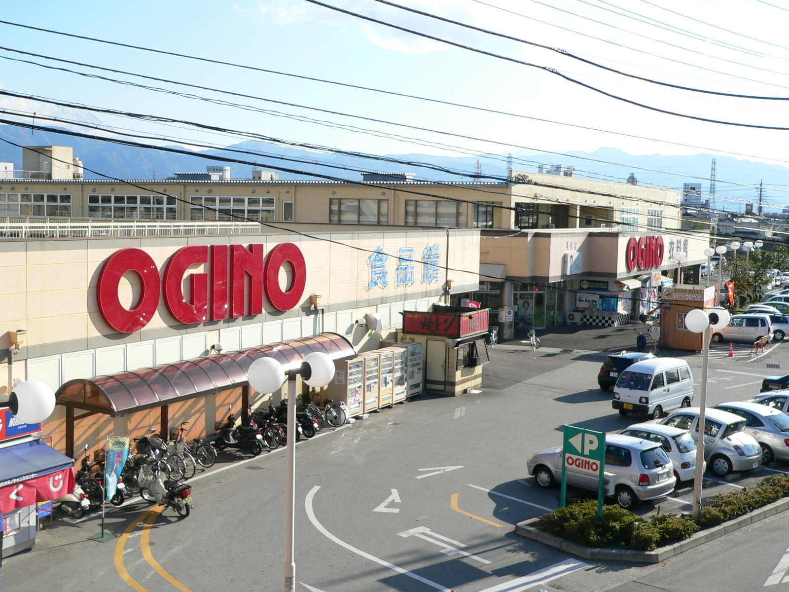 It uses it in a Japanese version.